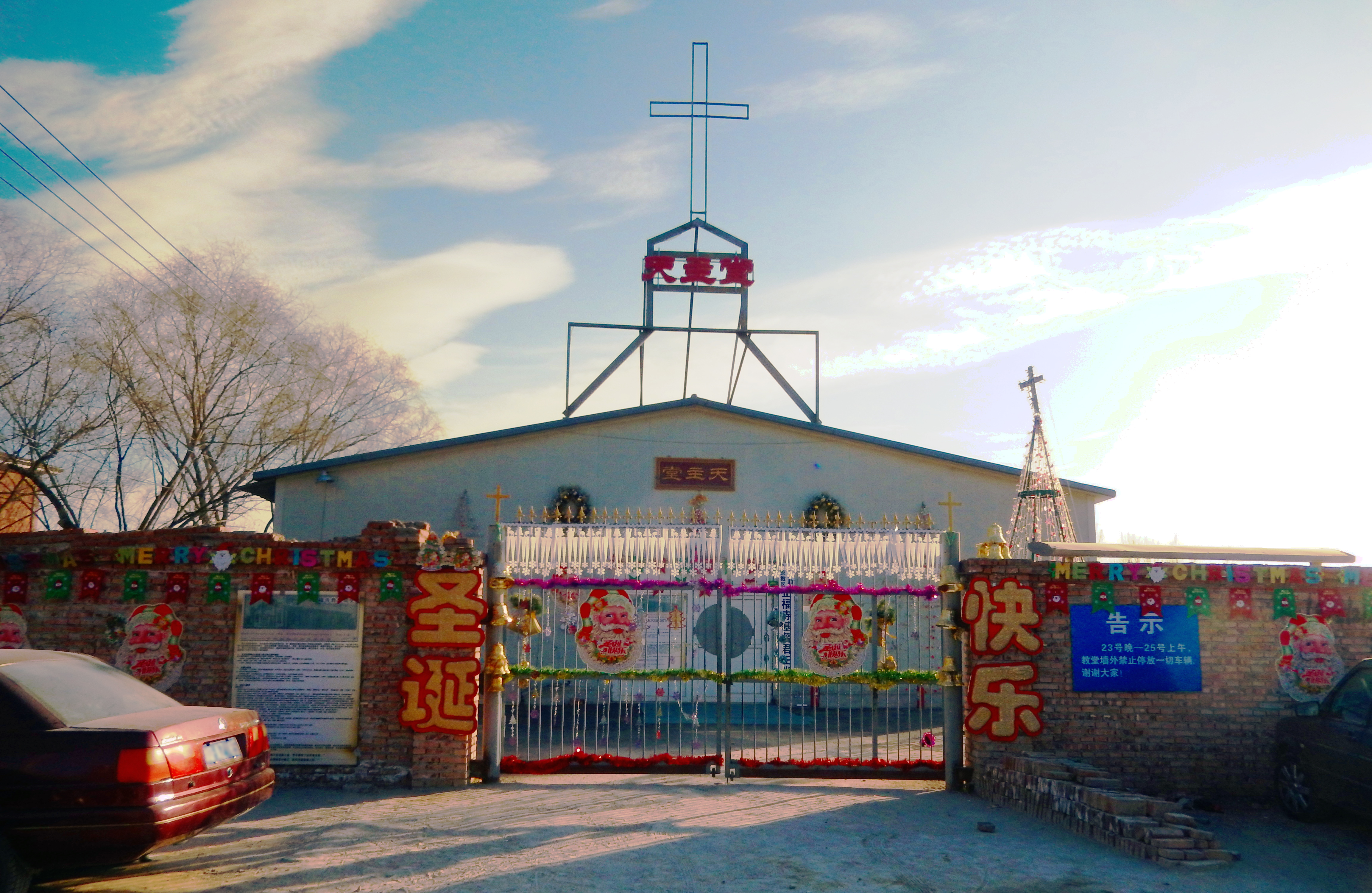 Zhengfusi Catholic Church in Haidian, Beijing, located on the site of the former Zhengfusi Catholic cemetary.